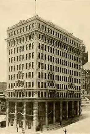 A black and white photograph of the International Savings & Exchange Bank Building as it looked in 1907, in Downtown Los Angeles.